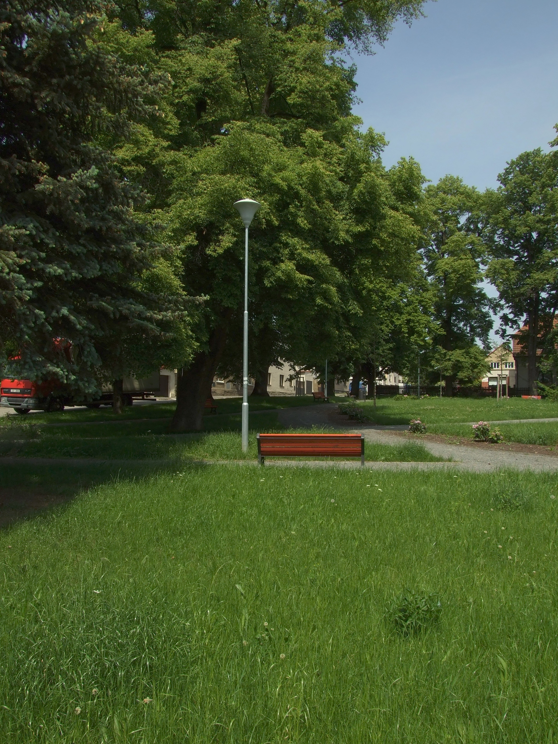 Hostivice, Prague-West District, Central Bohemian Region, the Czech Republic. A park.